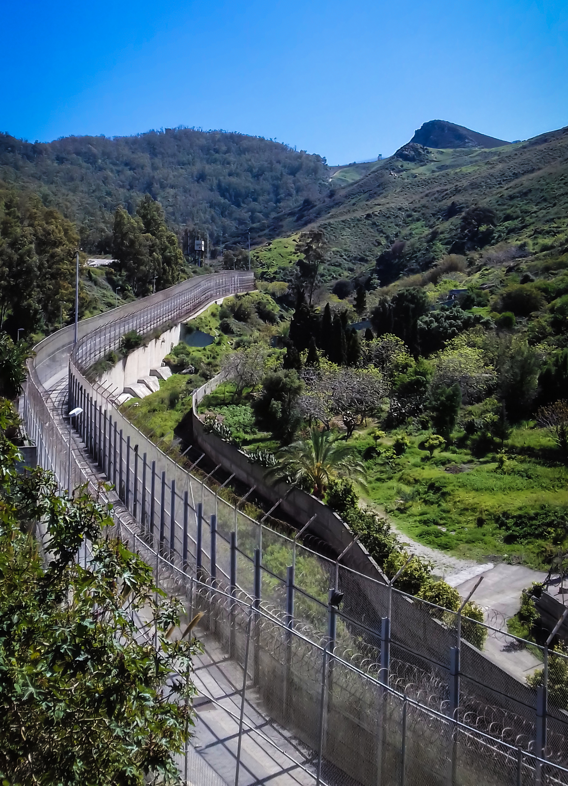 The Ceuta-Morocco border fence, as seen from the Ceuta side. Looking South into Morocco